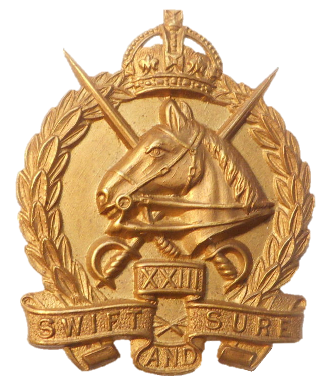 Unit Colour patch